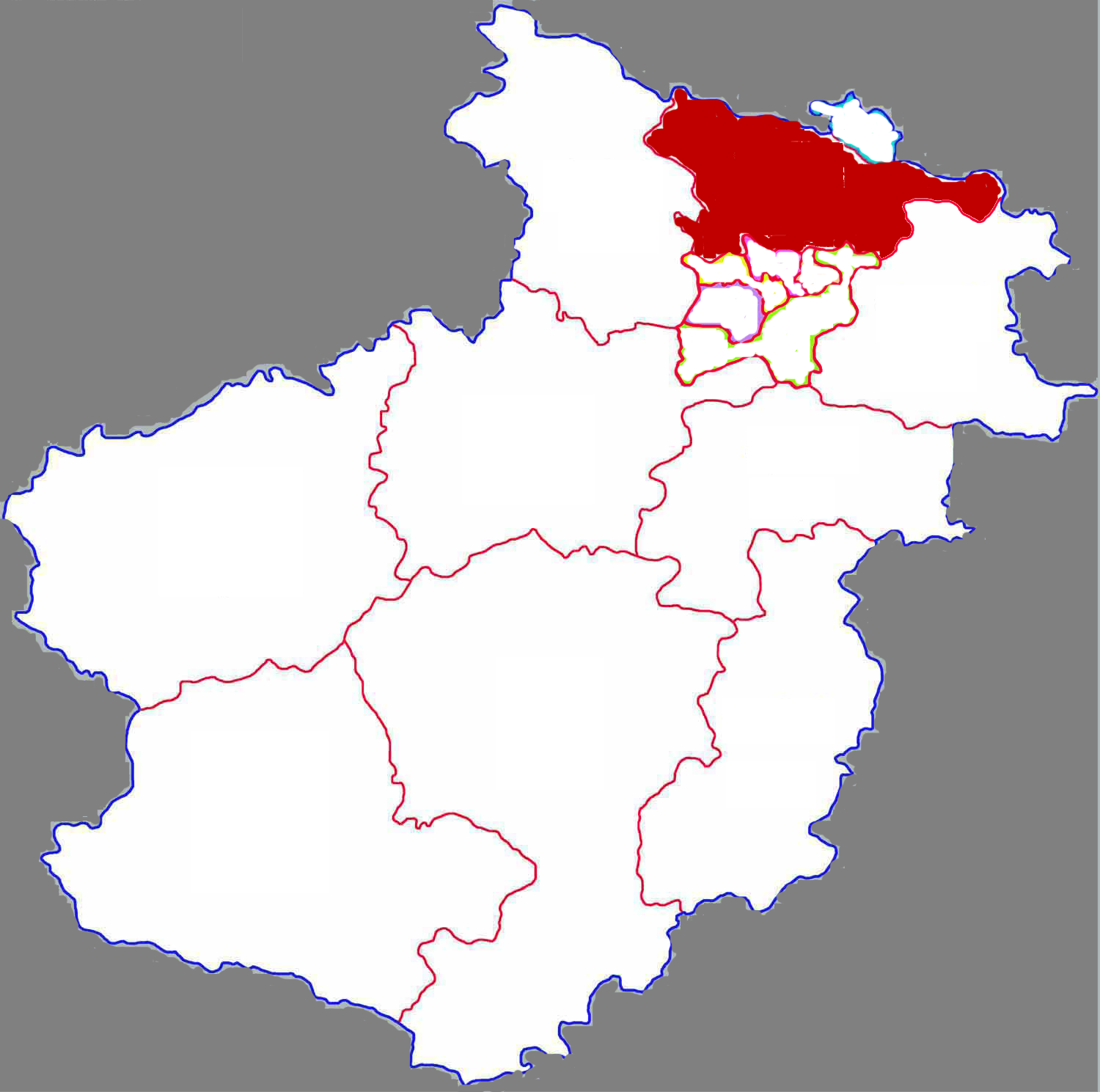 Location of Mengjin county in Luoyang city, China